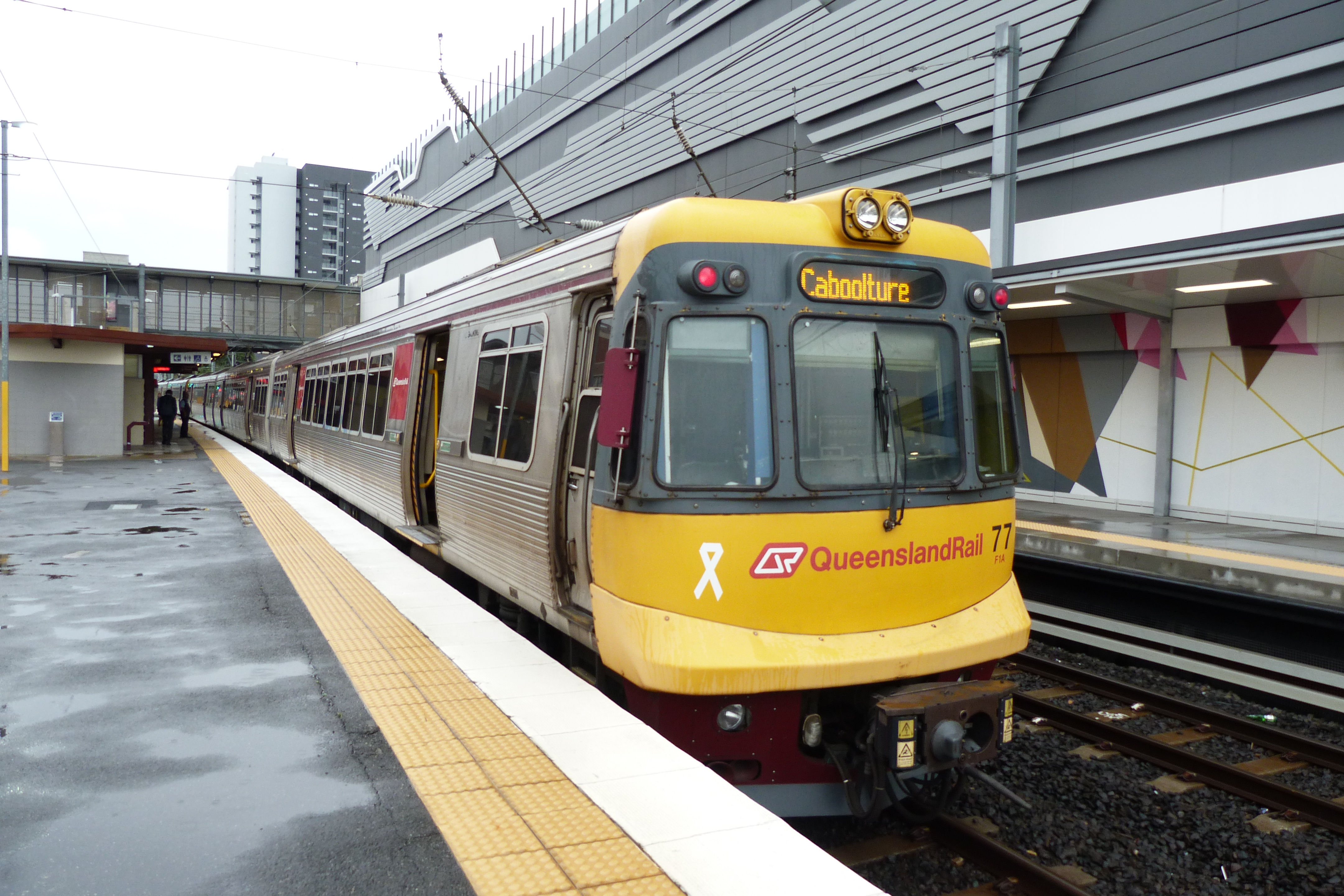 EMU77 at Milton